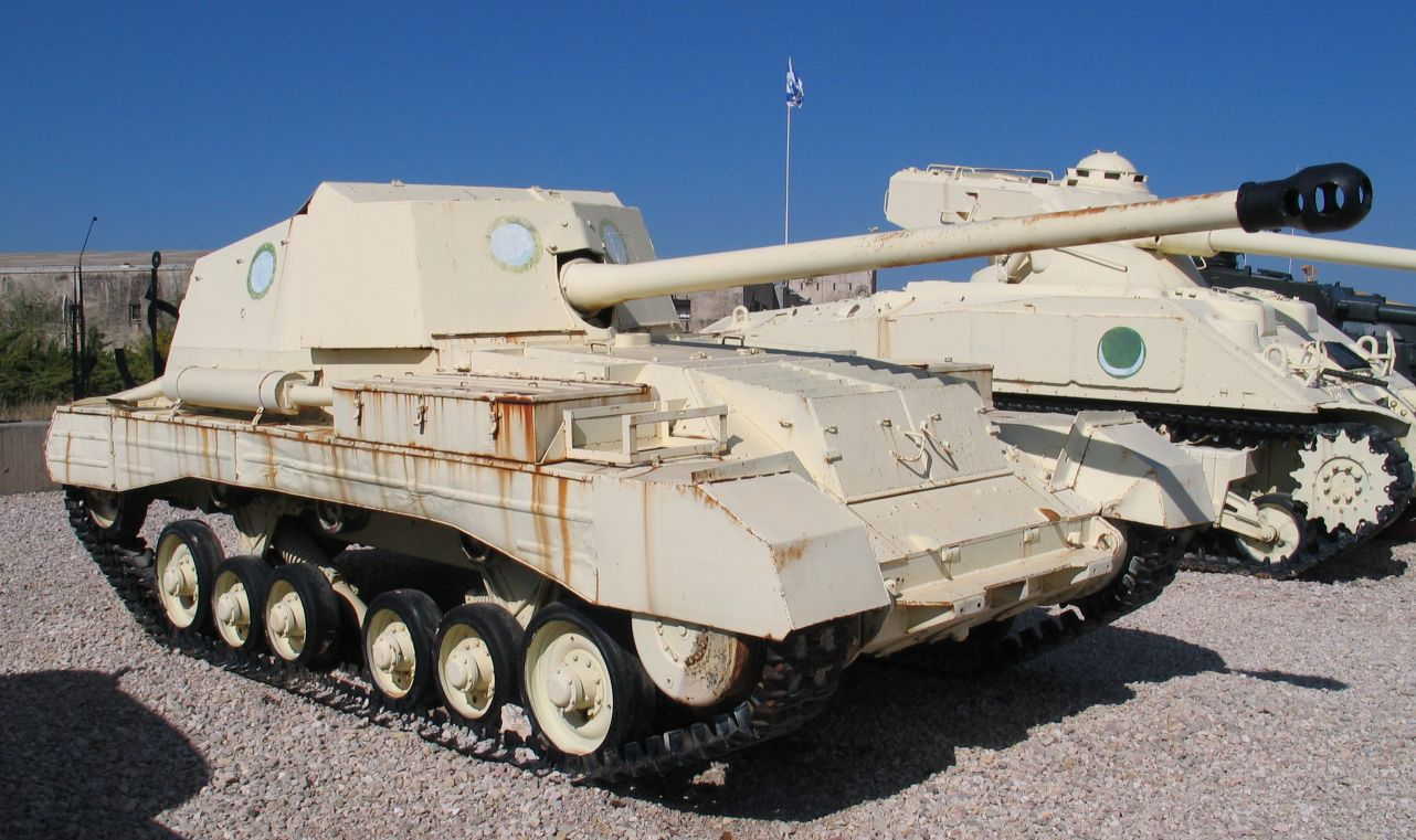 Archer tank destroyer in Yad la-Shiryon Museum, Israel. 2005.